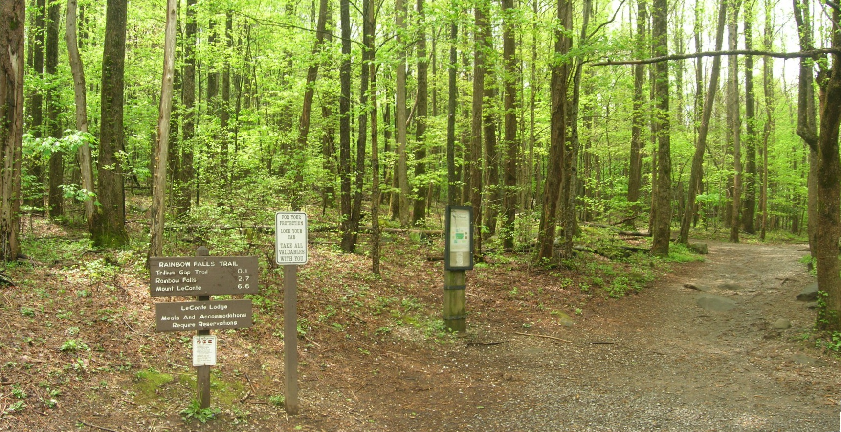 The Rainbow Falls Trail is a 6.5 mile footpath that leads hikers past Rainbow Falls, which has the highest single-drop of water in the Great Smoky Mountains National Park, before ending up at the LeConte Lodge, a mountaintop hotel near the summit of Mount Le Conte. Photo taken by myself, Scott Basford, on April 20, 2006.